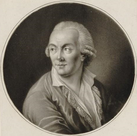 Belgian jurist and politician Henri van der Noot (1731-1827). « Messire Henri Vander-Noot. Avocat au conseil souverain de Brabant. » Collection Michel Hennin : Estampes relatives à l'Histoire de France.